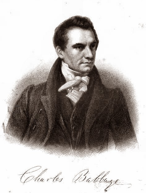 Engraving of Charles Babbage by Roffe, from The Mechanics' Magazine, London, 1st May 1833.